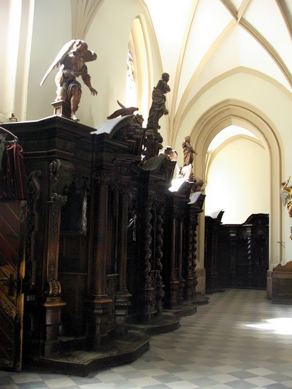 Kłodzko (Lower Silesia, Poland) - church of St Maria, confessionals.